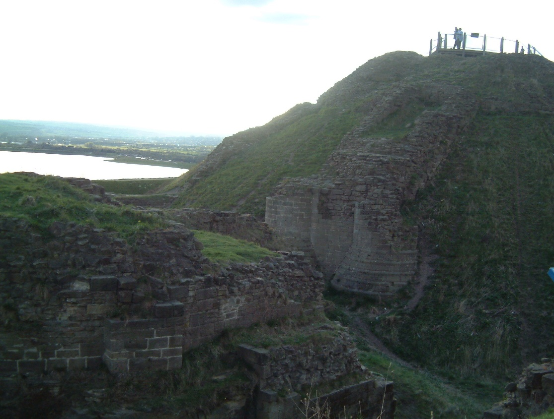 Picture of Sandal Castle, near Wakefield, West Yorkshire, taken by DKJackson in April 2004. This shows a view of the ruins of the castle as seen by visitors at this time. The lake at Pugneys County Park is visible in the background.